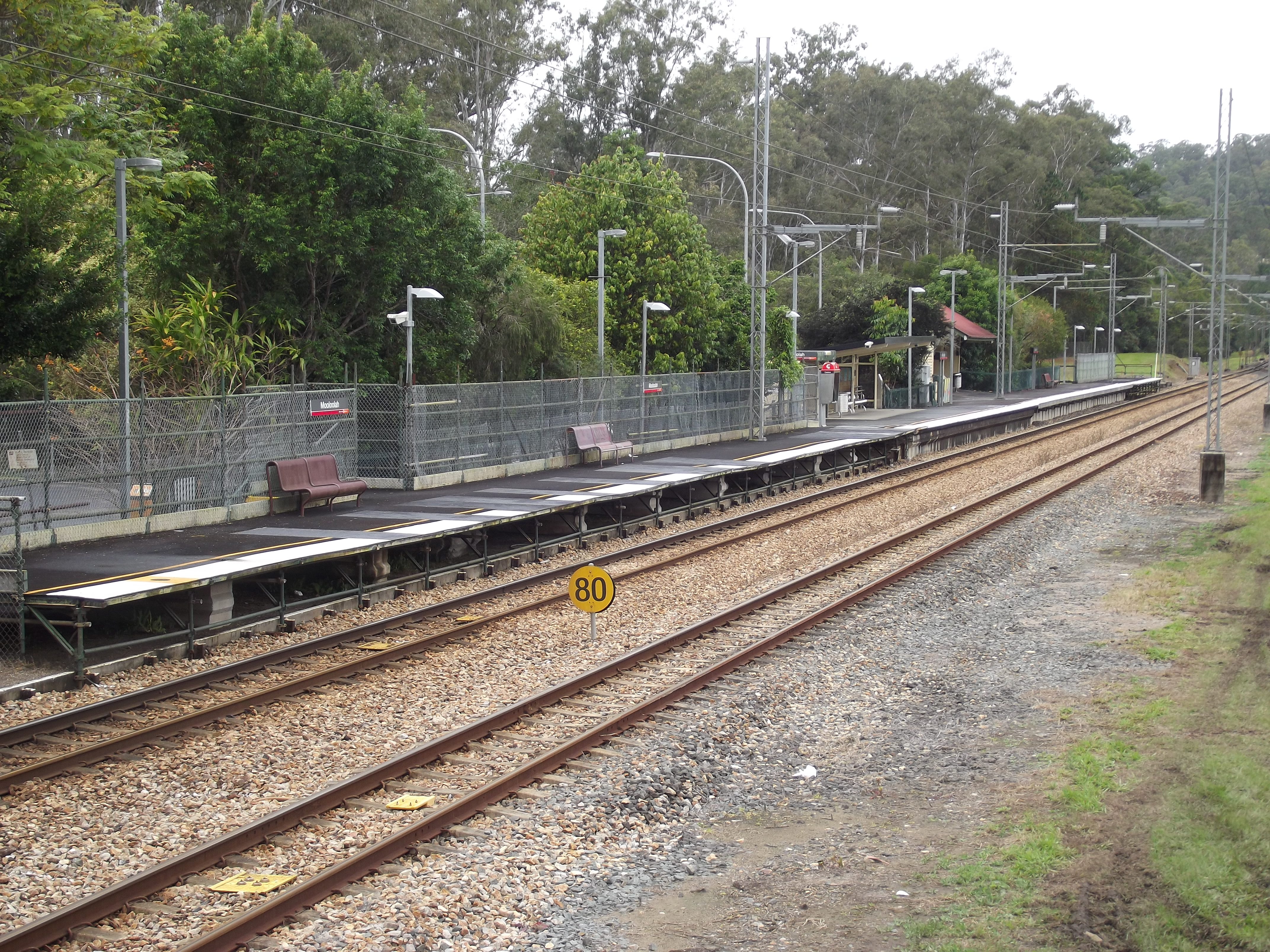 A photo of the Mooloolah railway station operated by TransLink, located in Sunshine Coast, Queensland.